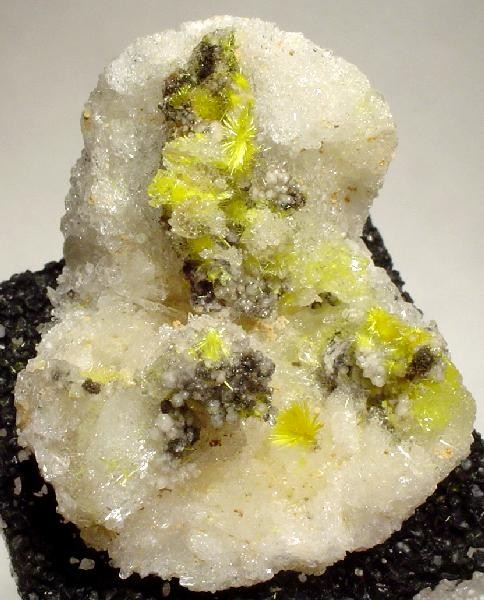 Sklodowskite, Quartz Locality: Animas Mine, Francisco Portillo, West Camp, Santa Eulalia District, Municipio de Aquiles Serdán, Chihuahua, Mexico (Locality at ) An excellent and aesthetic specimen of bright, canary-yellow needle sprays of sklodowskite needles nicely set in an artistic vug of sparkly, off-white quartz from Santa Eulalia, Mexico. 3.0 x 2.7 x 2.3 cm